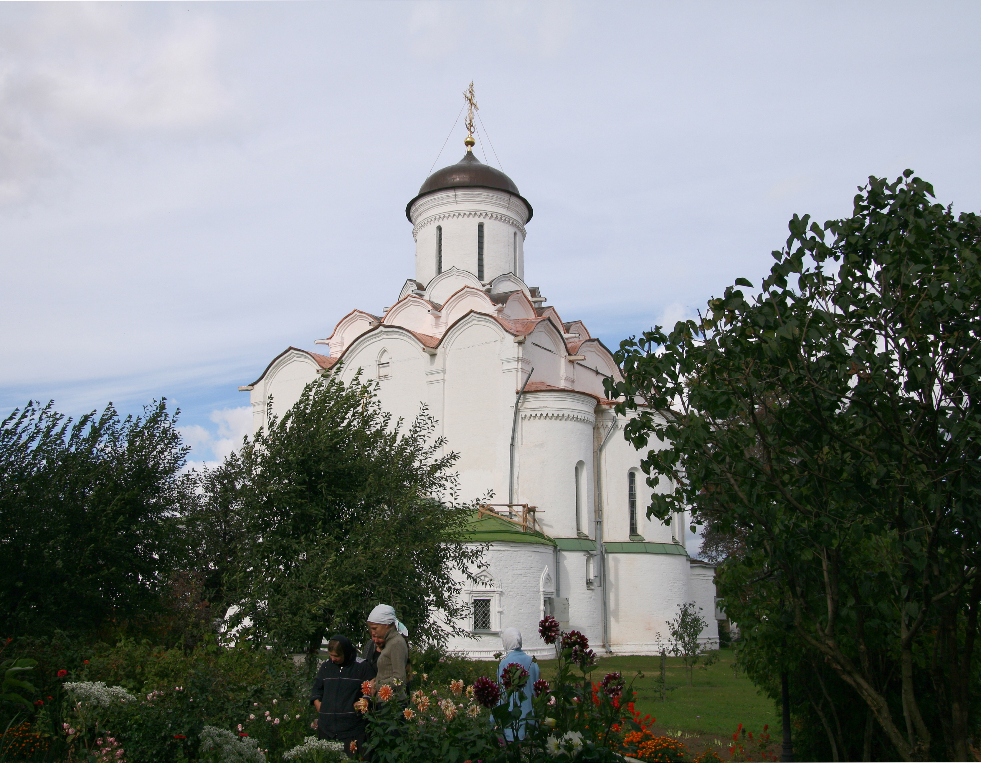 Church of the Dormition of the Theotokos in Knyaginin Monastery, 1490-1510, Vladimir